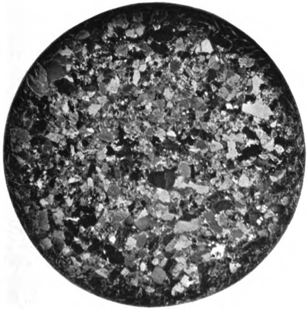 Plate XVII, Figure 2, of 1898 publication called Maryland Geological Survey Volume Two, with caption "Photomicrograph of Gneiss, Baltimore. (Magnified Ten Diameters)." Field represents approximately 0.85 cm. Under crossed polarized light.